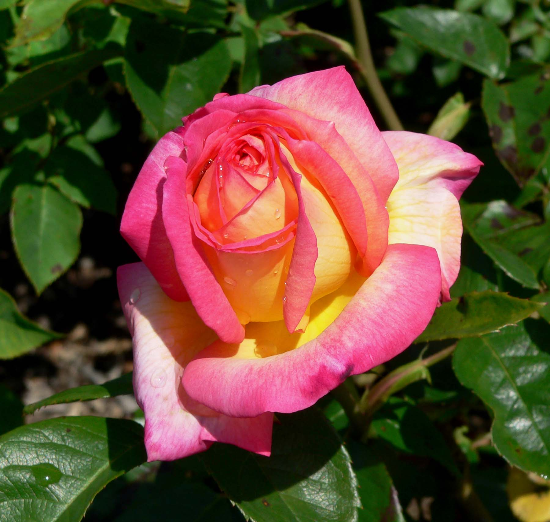 Photo of Rosa 'Asagumo' at the San Jose Heritage Rose Garden